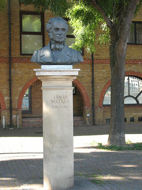 James Walker, Engineer, near to Stepney, Tower Hamlets, Great Britain. A bust on a stone pillar by the edge of Greenland Dock commemorates a former President of the Institution of Civil Engineers. His local connection was that he worked on building the Surrey Commercial Docks, remaining as engineer to the Surrey Commercial Dock Company until his death in 1862.